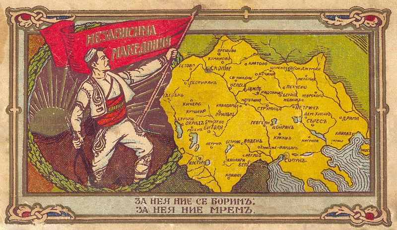 Postcard of Ilinden Organisation presenting the United Macedonia